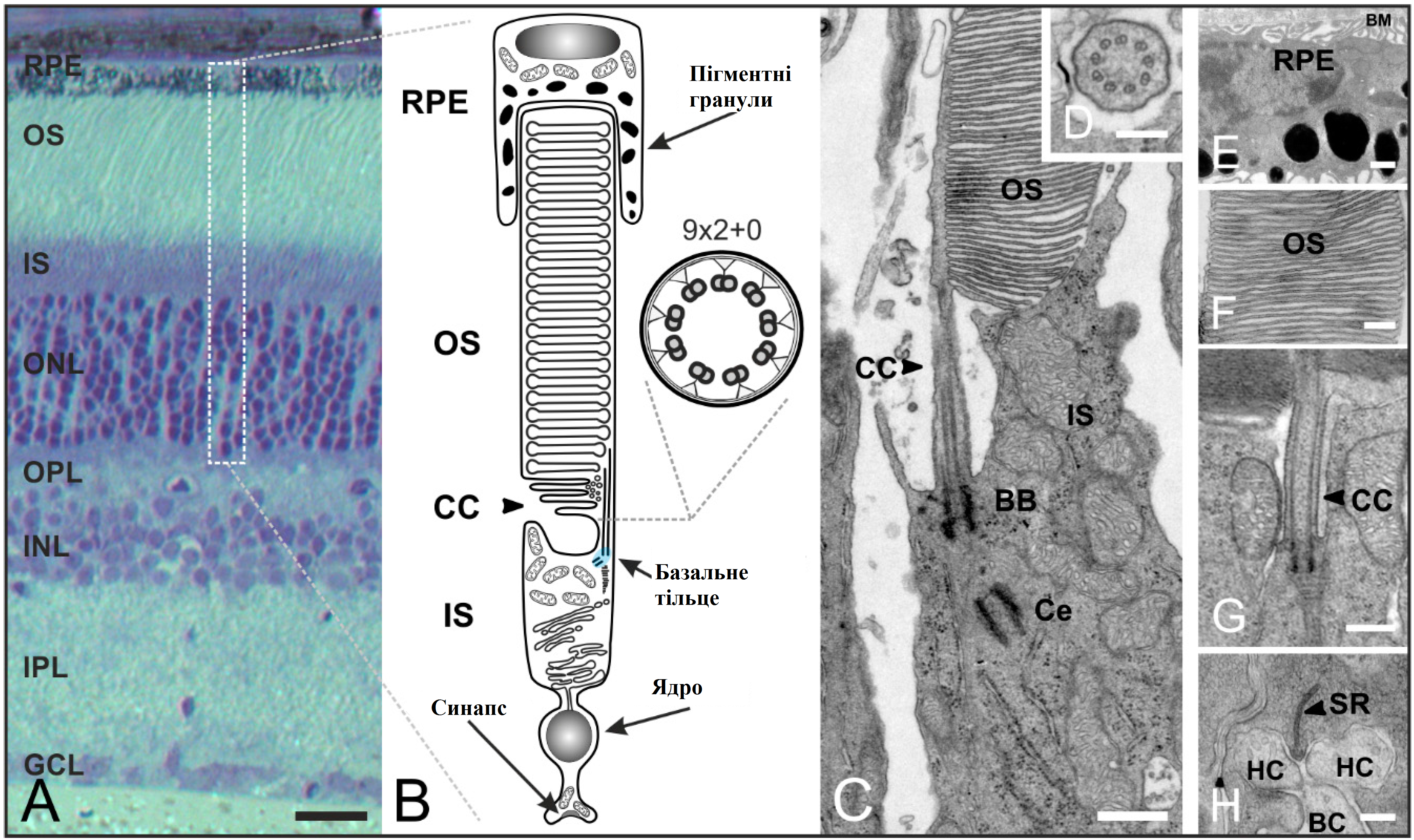 Organization of rod photoreceptors in the mammalian retina. (A) Vertical section of a vertebrate retina stained with toluidine blue. The retina contains five classes of neurons (photoreceptors, bipolar cells, horizontal cells, amacrine cells, ganglion cells), and is divided into three nuclear layers (outer nuclear layer (ONL), inner nuclear layer (INL), ganglion cell layer (GCL)) and two synaptic layers (outer plexiform layer (OPL), inner plexiform layer (IPL)); (B) Schematic of a vertebrate rod photoreceptor consisting of the long, light-sensitive outer segment (OS) enclosed by the retinal pigment epithelium (RPE) which is connected via a small intracellular bridge, the connecting cilium (CC), to the metabolically active inner segment (IS) including the basal body complex (BBC; shaded in blue) and the apical region. The OS represents a modified primary cilium. The CC corresponds to the transition zone of a prototypic cilium with a (9 × 2 + 0) microtubule array; (C–H) Transmission electron micrograph of a photoreceptor-connecting cilium; (C) The CC connects the OS and IS. The BBC consists of the basal body (BB) and its centriole (Ce); (D) Cross-section of the CC showing the characteristic (9 × 2 + 0) microtubule array; (E) RPE with pigment granules and the Bruch’s membrane (BM); (F) OS composed of stacks of tightly packed membrane discs; (G) Higher magnification view of the ciliary apparatus; (H) Synaptic ribbon (SR) with invaginations of postsynaptic horizontal cells (HC) and bipolar cells (BC). Scale bars: 100 µm (A), 200 nm (D,F,H), 500 nm (E,G).